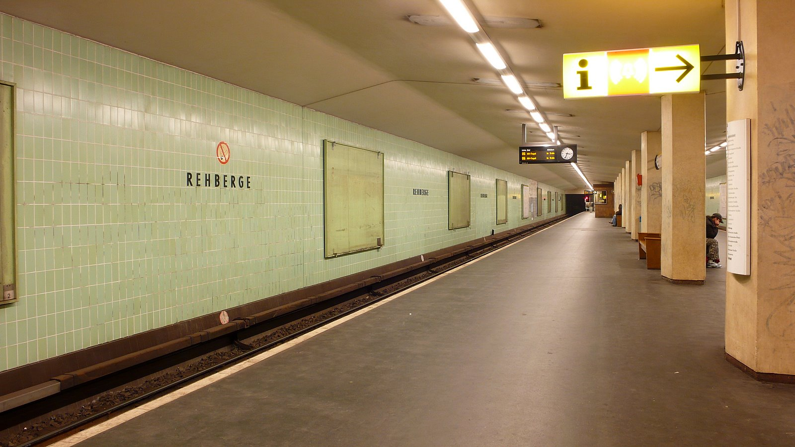 Rehberge subway station Berlin